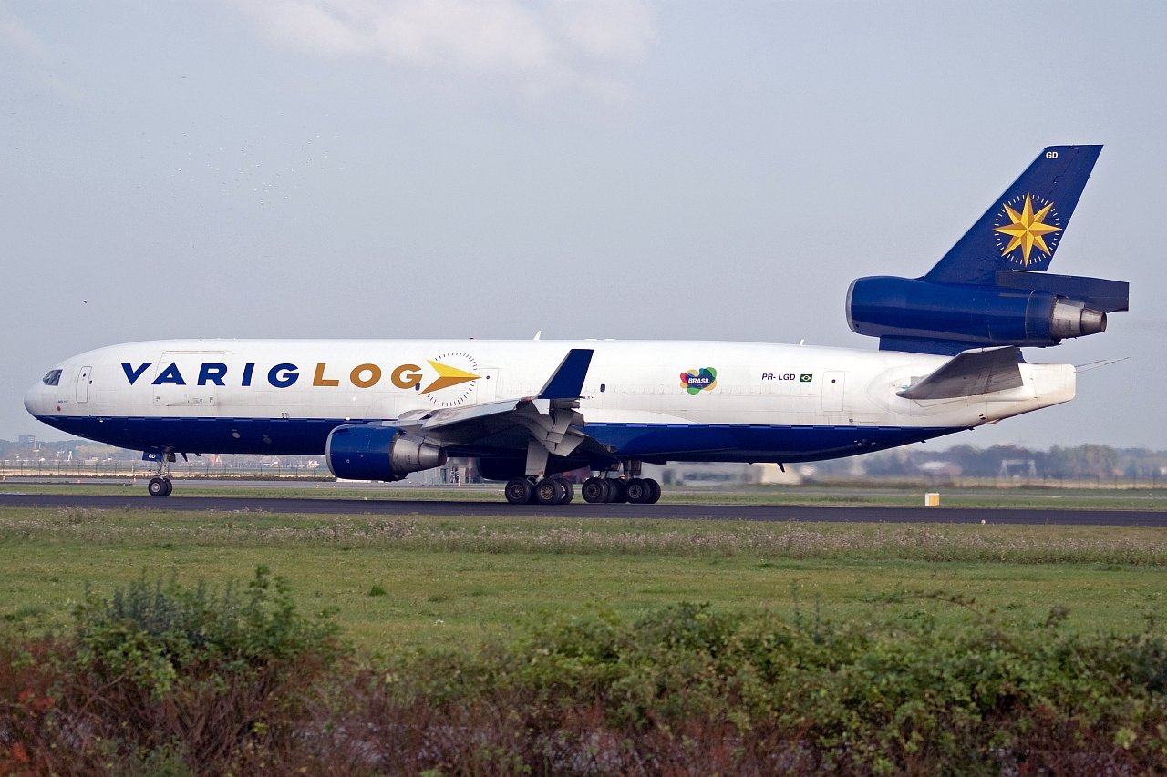 McDonnell Douglas MD-11(F) Amsterdam schiphol EHAM (06-10-2007)